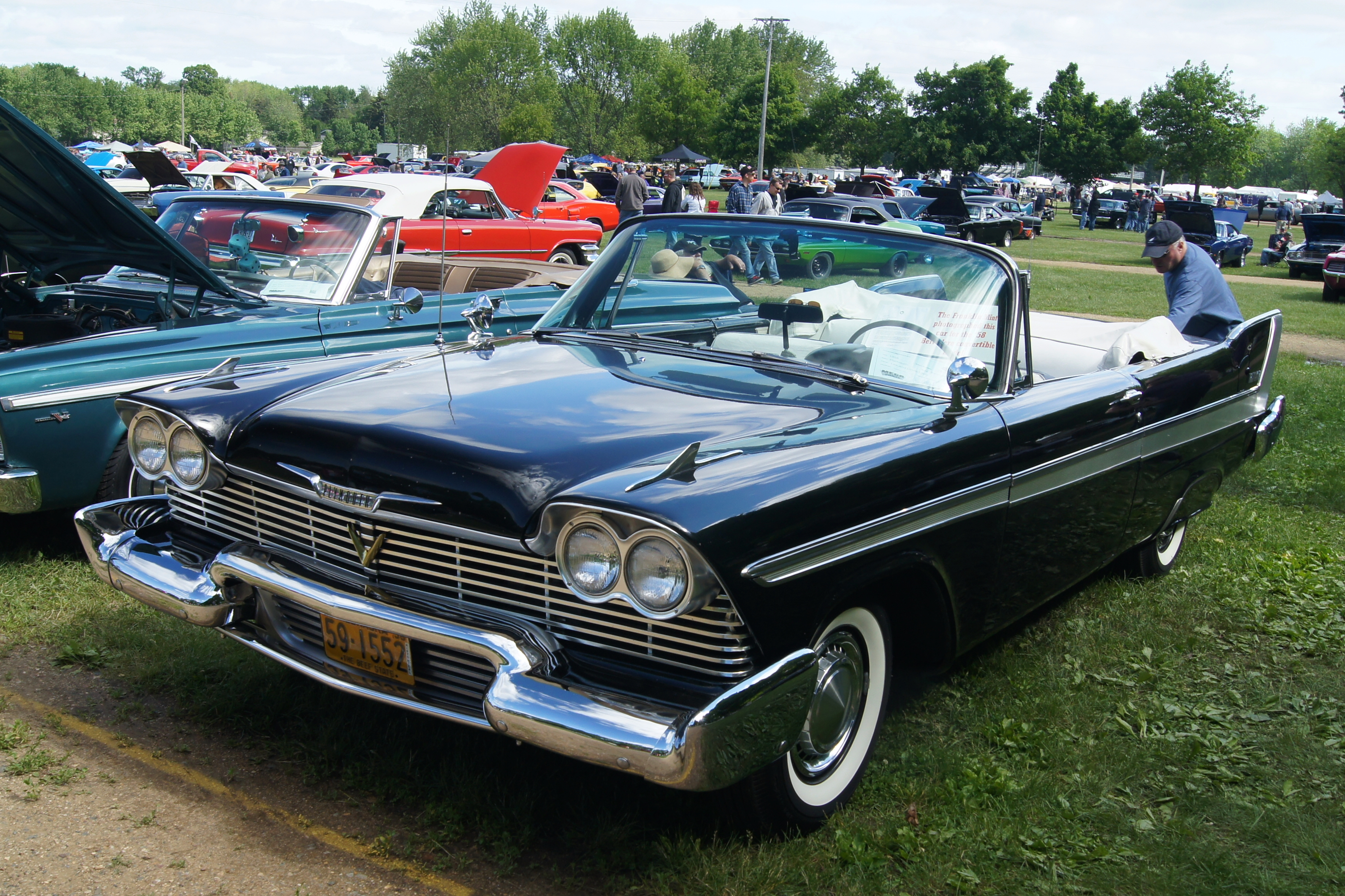 Midwest Mopars in the Park National Car Show & Swap Meet Dakota County Fairgrounds Farmington, Minnesota May 30 & 31, 2015 Click here for more car pictures at my Flickr site.